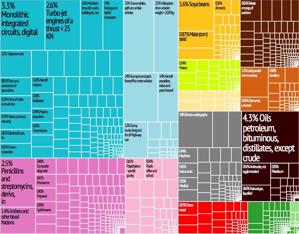 United States Export Treemap from MIT Harvard Economic Complexity Observatory